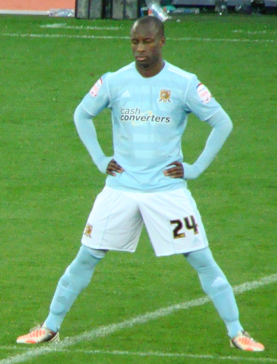 Sone Aluko. Image cropped from original at flickr.